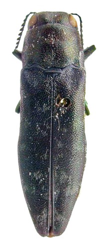 Agrilus marmoreus Deyrolle 1864, lectotype.